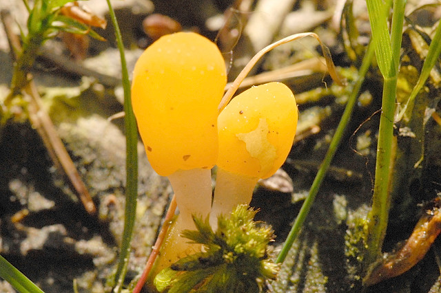 Mitrula paludosa from Commanster, Belgium. The determination of the species shown in this picture has been verified.